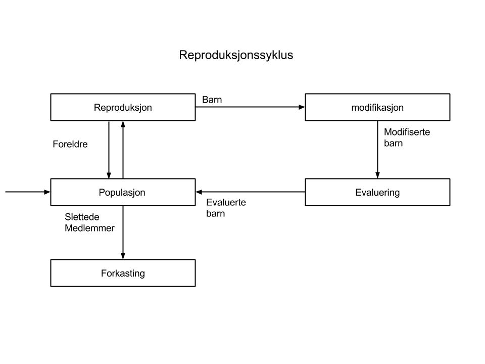 Reproduction cycle for a genetic algorithm